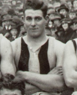 Photograph of Billy Pardon in 1924